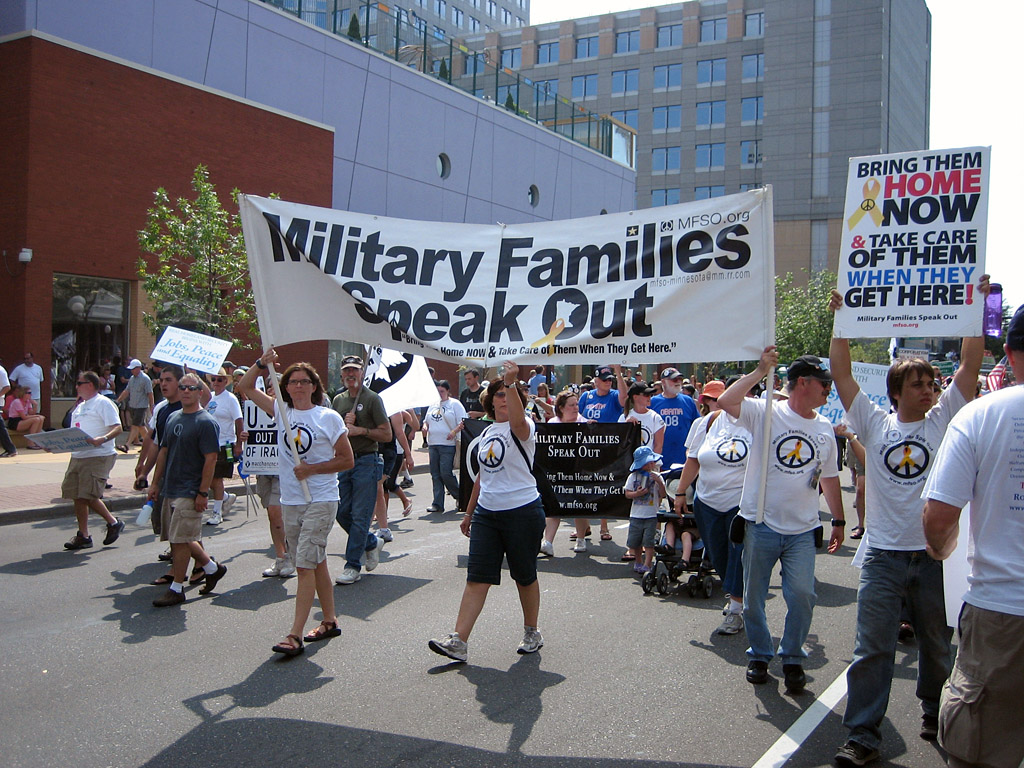 Military Families Speak Out at the w:2008 Republican National Convention in Saint Paul, Minnesota